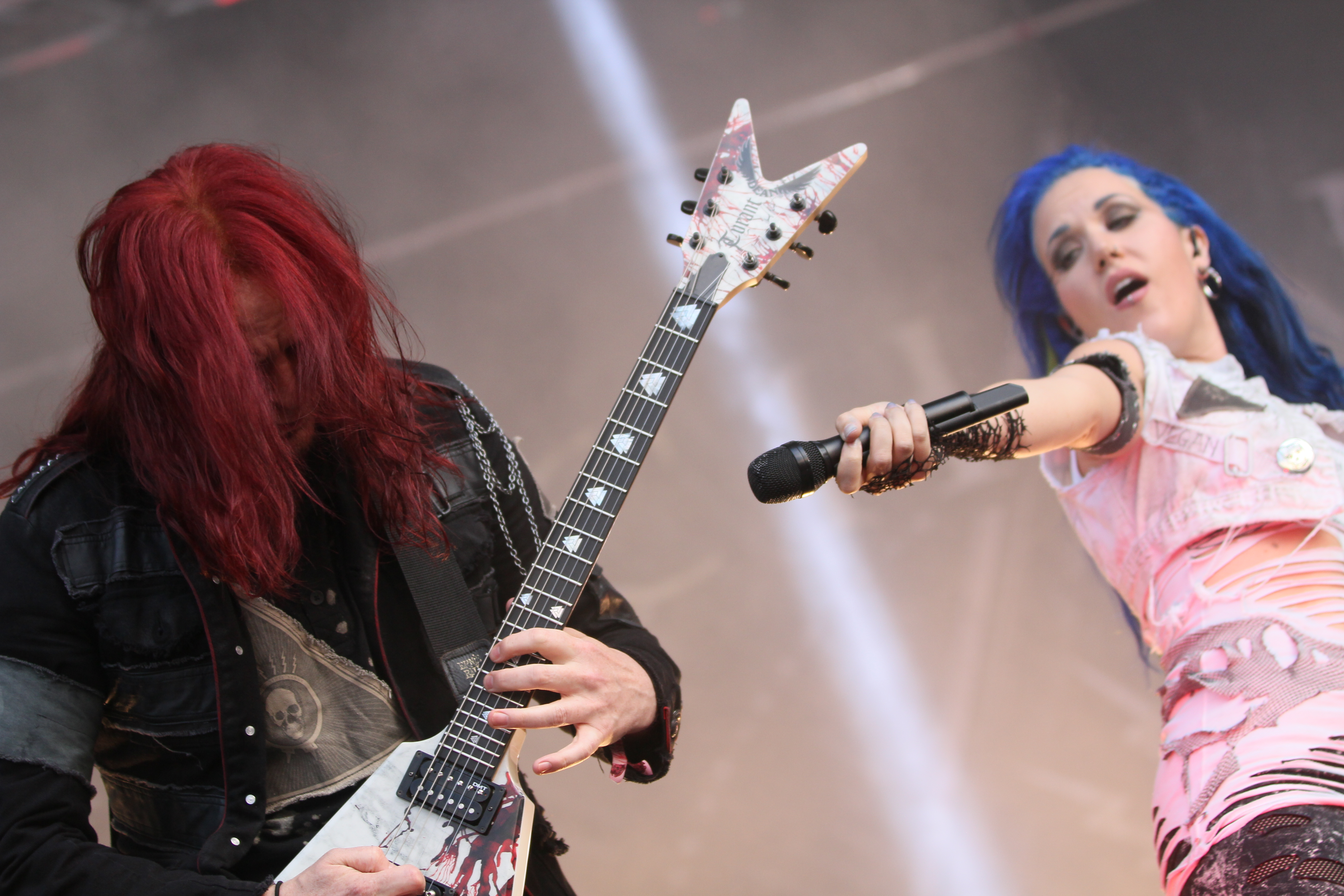 The Swedish melodic death metal band Arch Enemy at the Rockharz Open Air 2014 in Ballenstedt/Germany